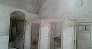 حمام تاریخی ممقان